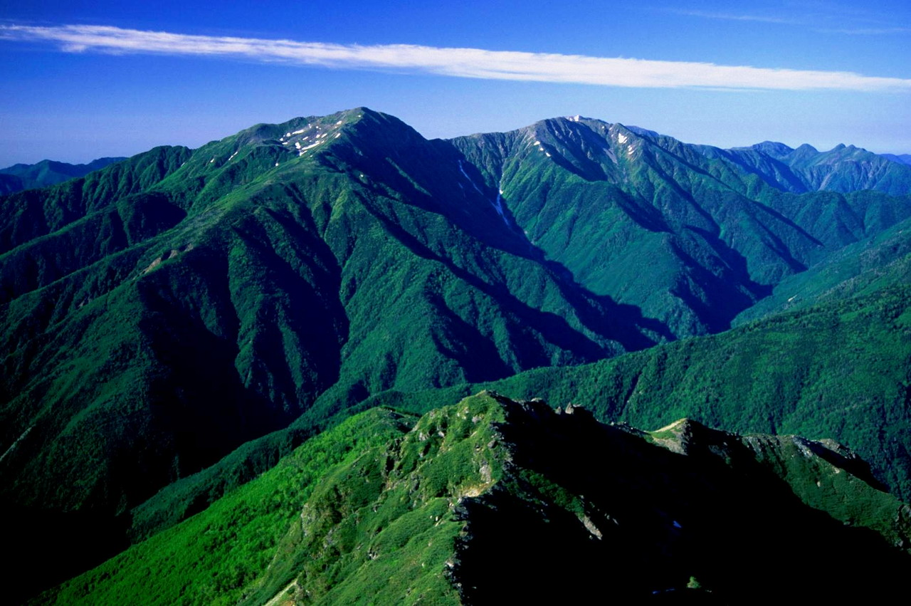 Mount Warusawa (Arakawadake), from Mount Shiomi — in the Akaishi Mountains.